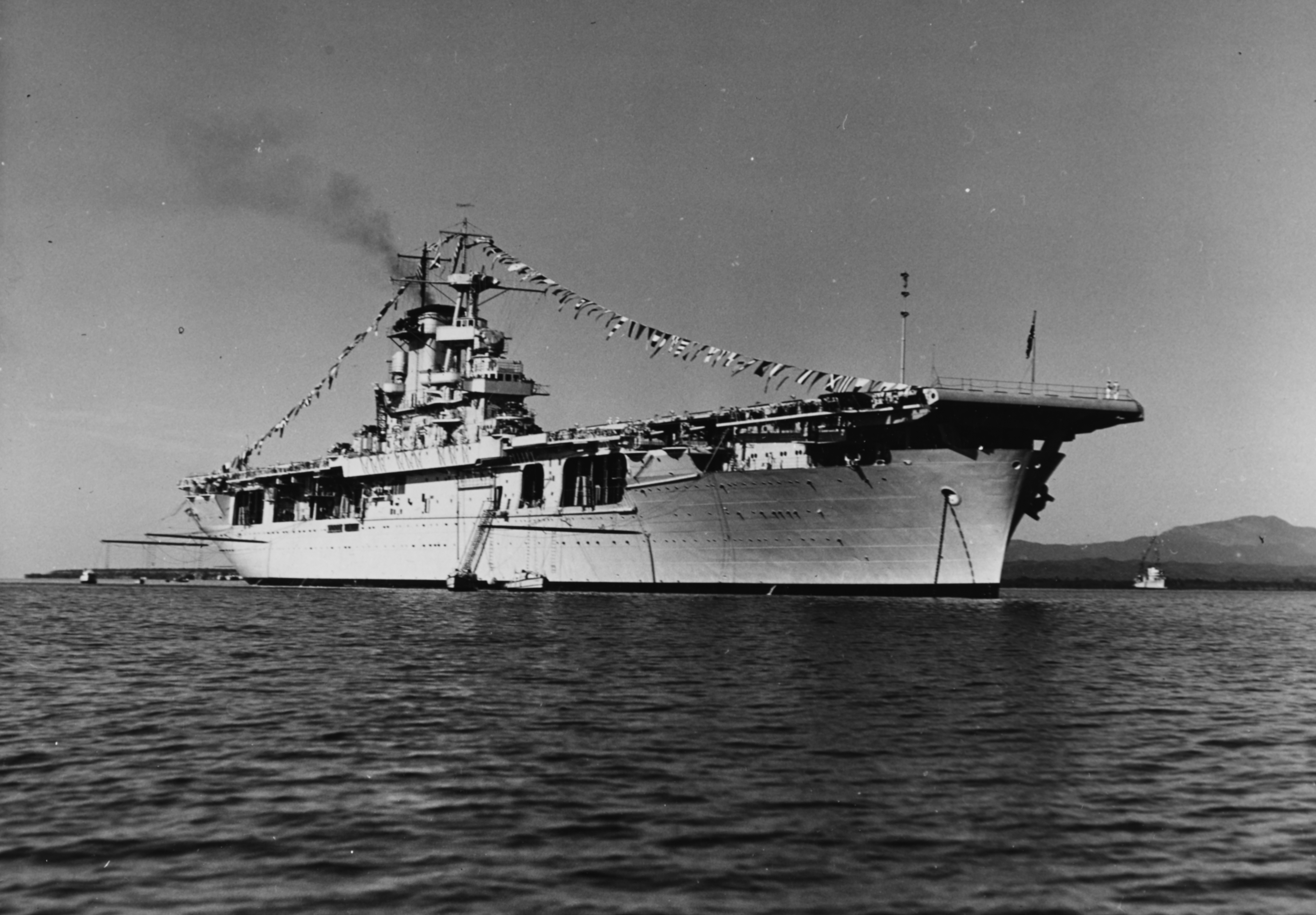 The U.S. aircraft carrier USS Wasp (CV-7) anchored at Guantanamo Bay, Cuba, "dressed" with flags for the Navy Day celebrations, 27 October 1940. Note the old flush-deck destroyer in the right distance.